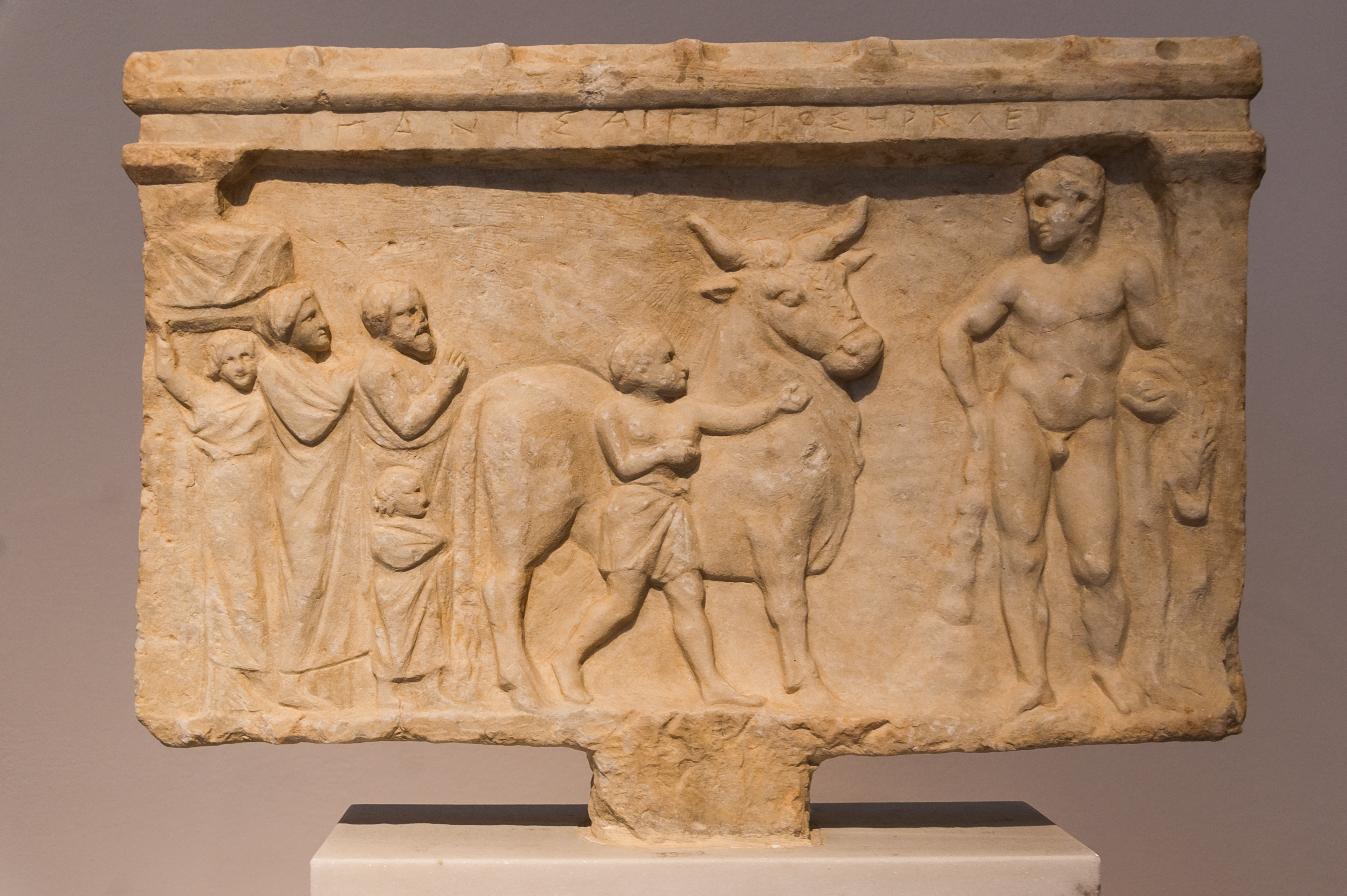 Votive relief. Marble. Found at river Ilissos, Athens. It has the form of a naiskos with pilasters, an epistyle and a cornice. Heartless is depicted at the right, holding the lion pelt and the club. In the centre, a bull is led to sacrifice by a servant. At the left, a family of worshipers with their maidservant, who carries a basket. The inscription says :Panis Aigiros, to Herakles. Probably from the sanctuary of Herakles in Kynosarges. 4th century BCE. N°3952